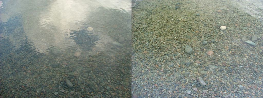 Reflection of cloud removed on water surface using polarizer filter